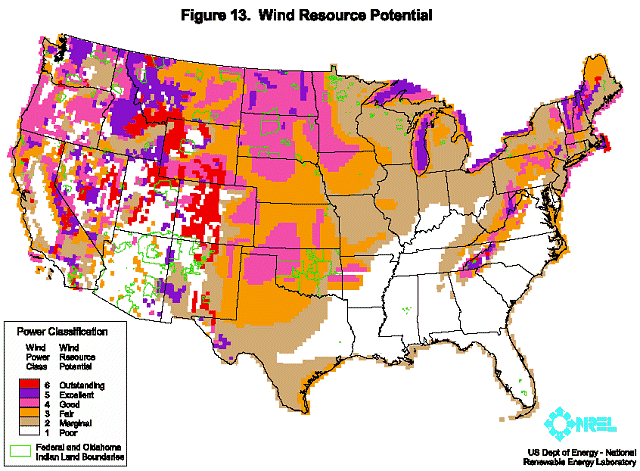 Map of US wind resource potential